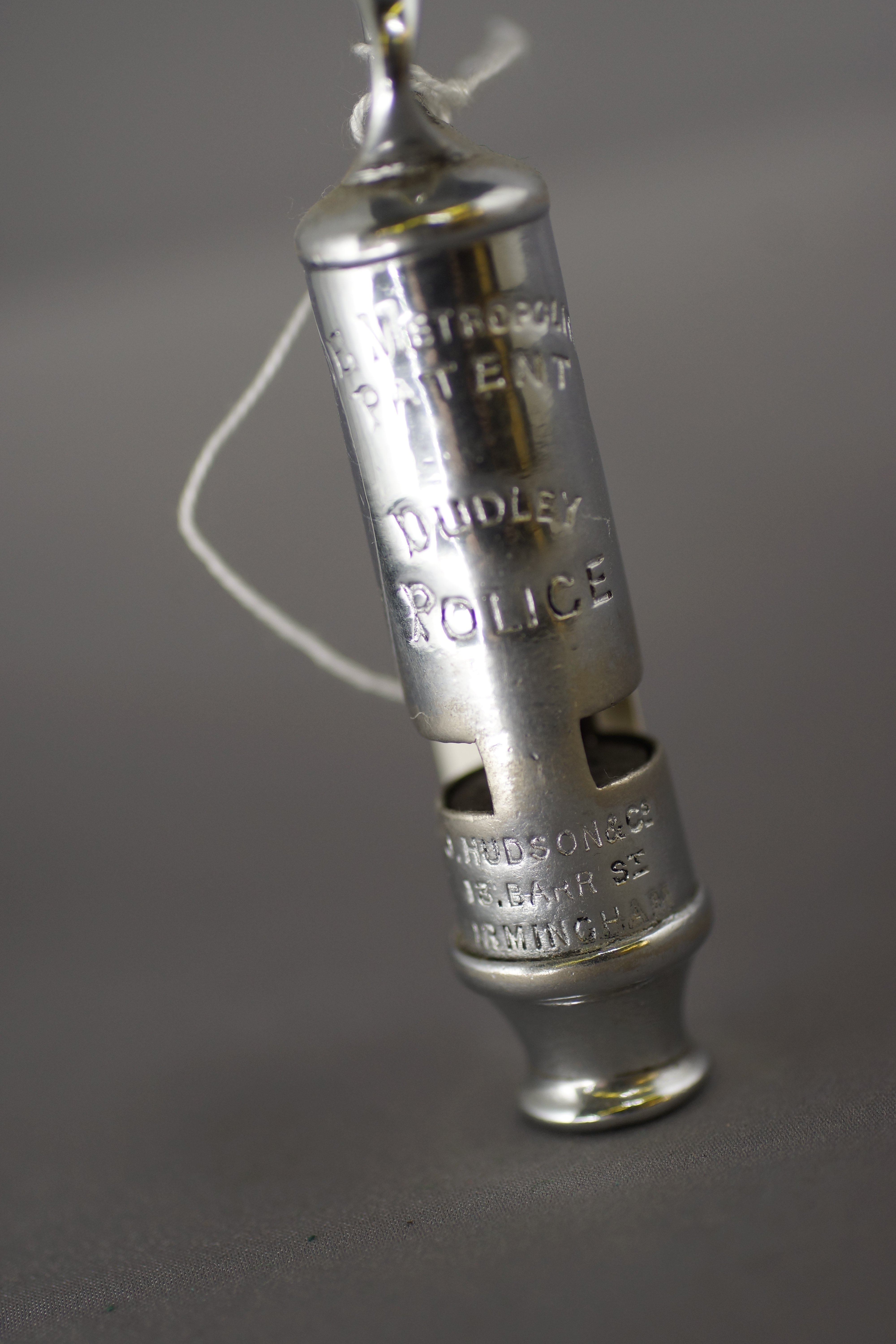 West Midlands Police Museum